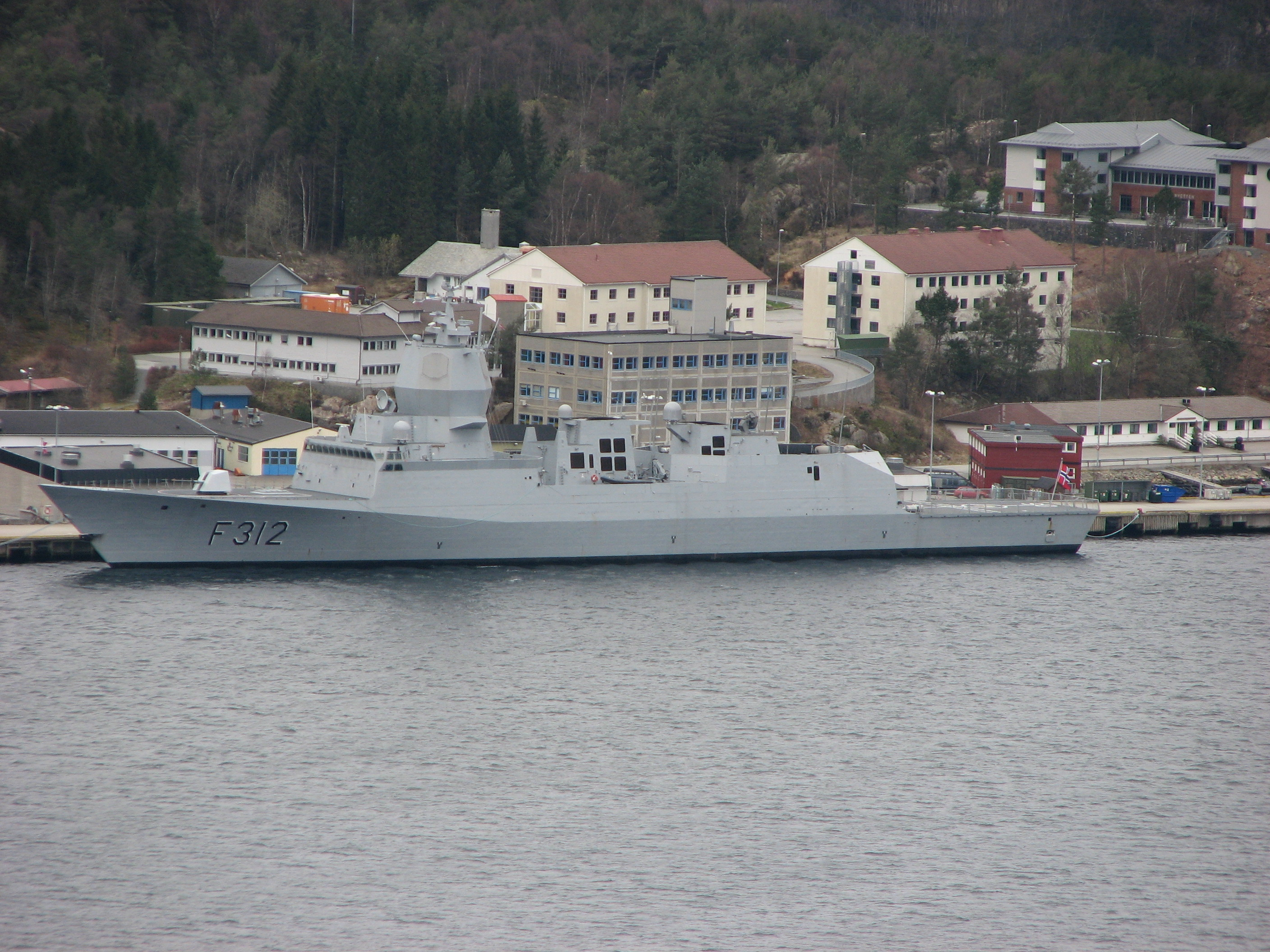 KNM Otto Sverdrup at Haakonsvern naval base, Bergen, Norway, 2009-04-10